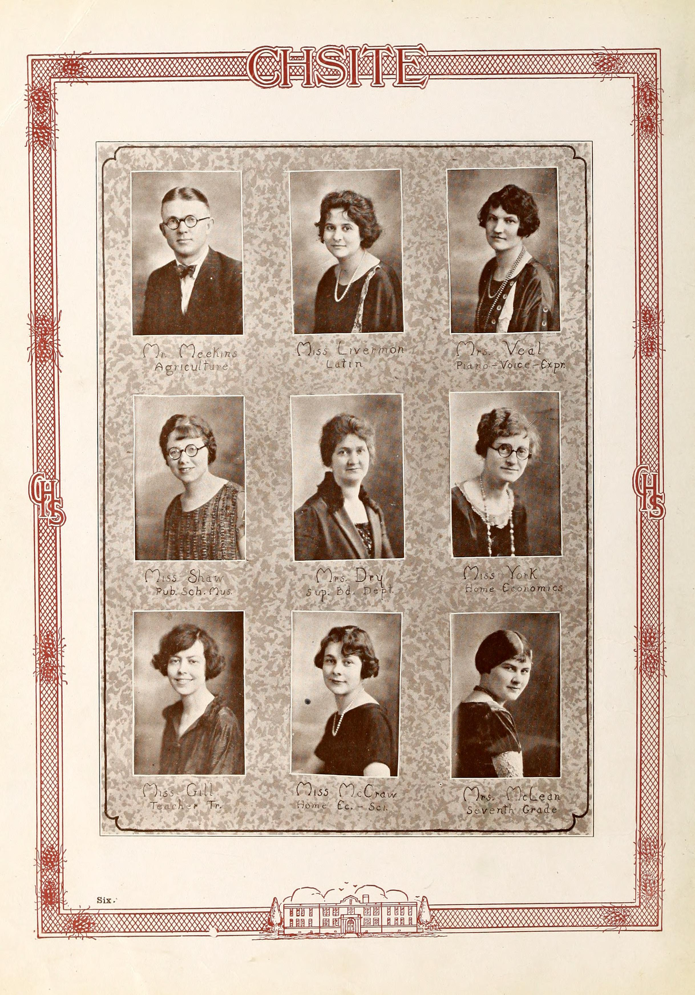 Title: The Chsite (serial) Year: 1915 (1910s) Authors: Cary High School (Cary, N.C.). Senior Class Subjects: Cary High School (Cary, N.C.) School yearbooks Publisher: (Cary, N.C.) : Senior Class of Cary Public High School Text Appearing Before Image: ' Text Appearing After Image: '